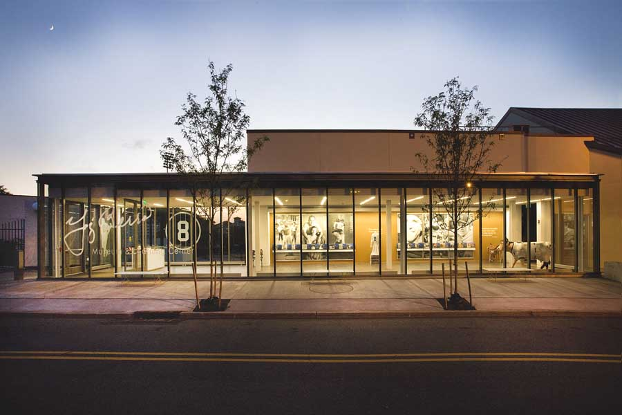 Night-time view of the entrance to the Yogi Berra Museum and Learning Center on the campus of Montclair State University in Little Falls, NJ